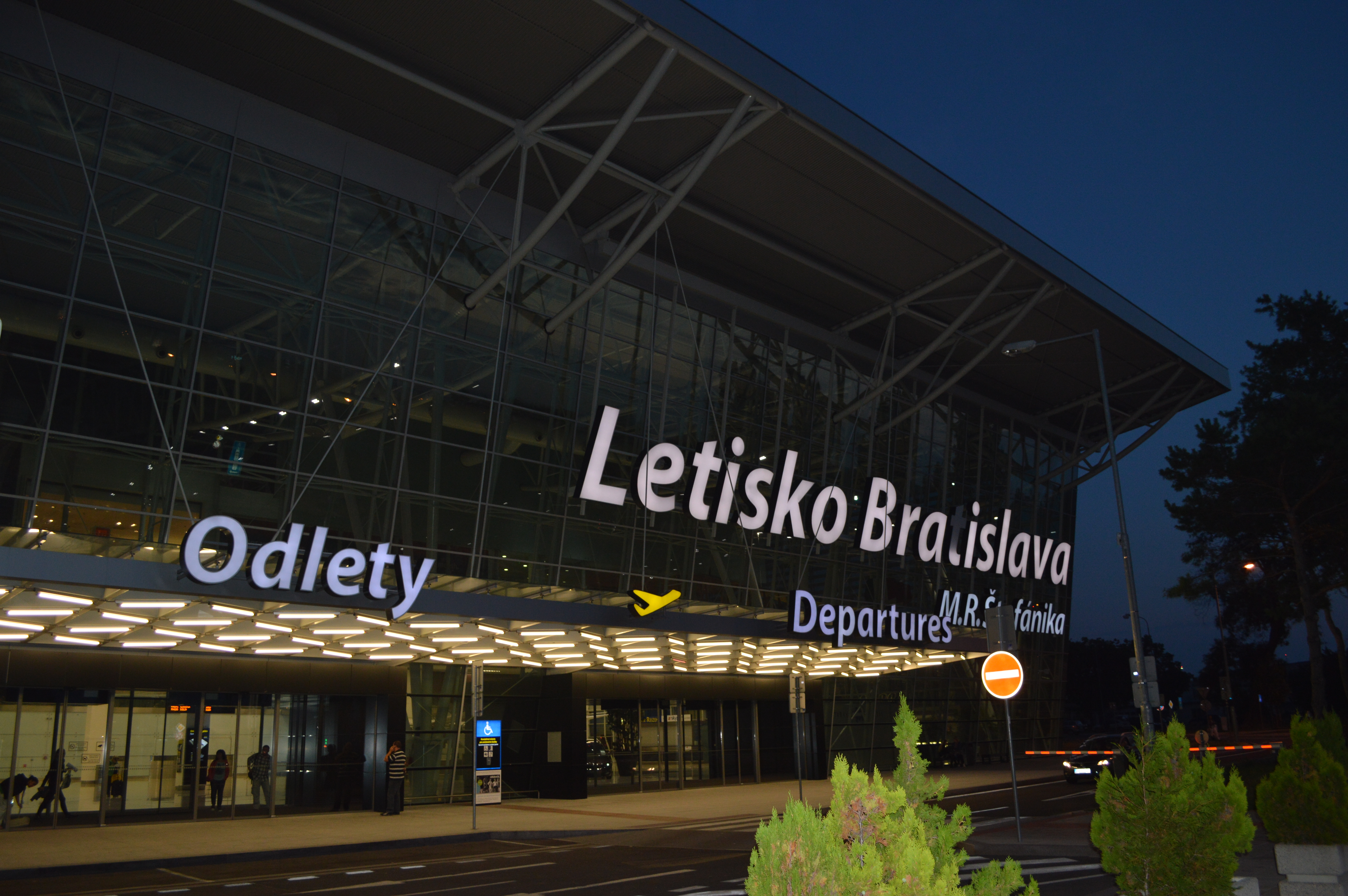 Departures terminal of Airport Bratislava